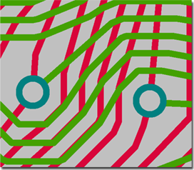 Wires approximated by lines in TopoR autorouter